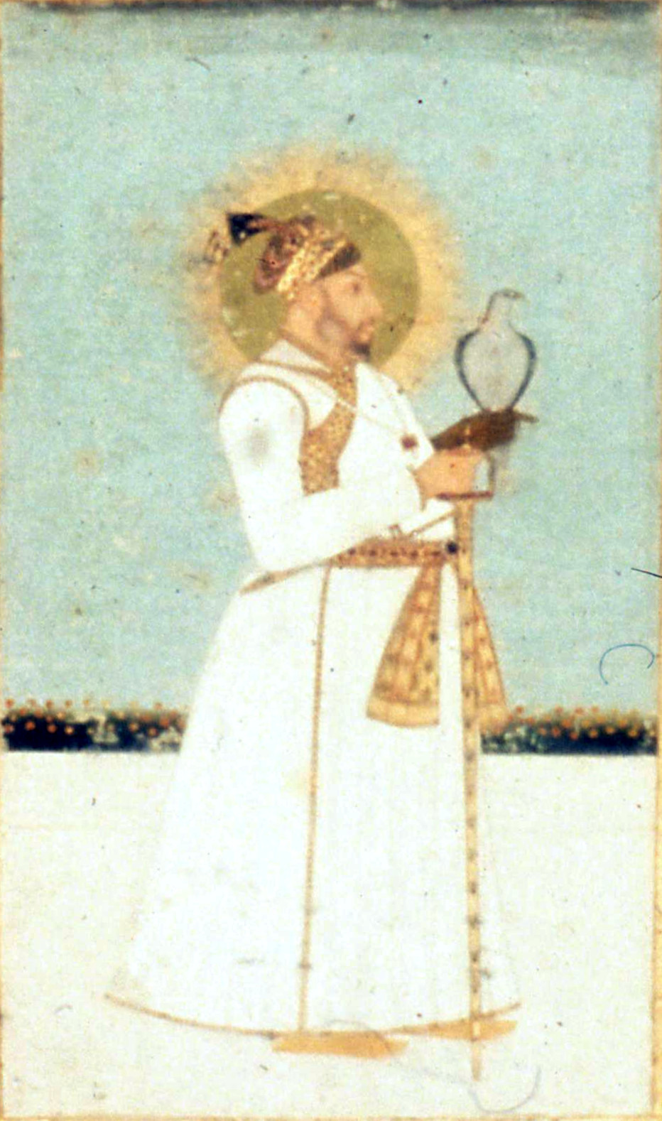 Album Leaf (recto). Portrait. Muḥammad Sháh. On Paper.